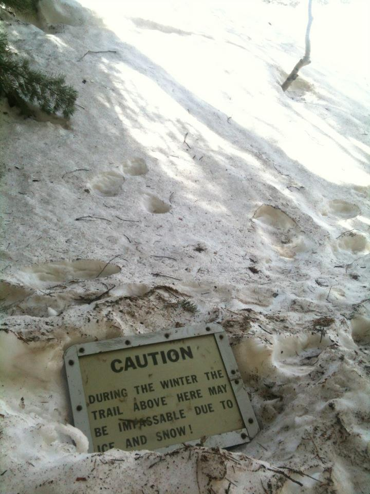 A sign located at roughly 8100 ft elevation on the La Luz trail to warn of winter conditions.